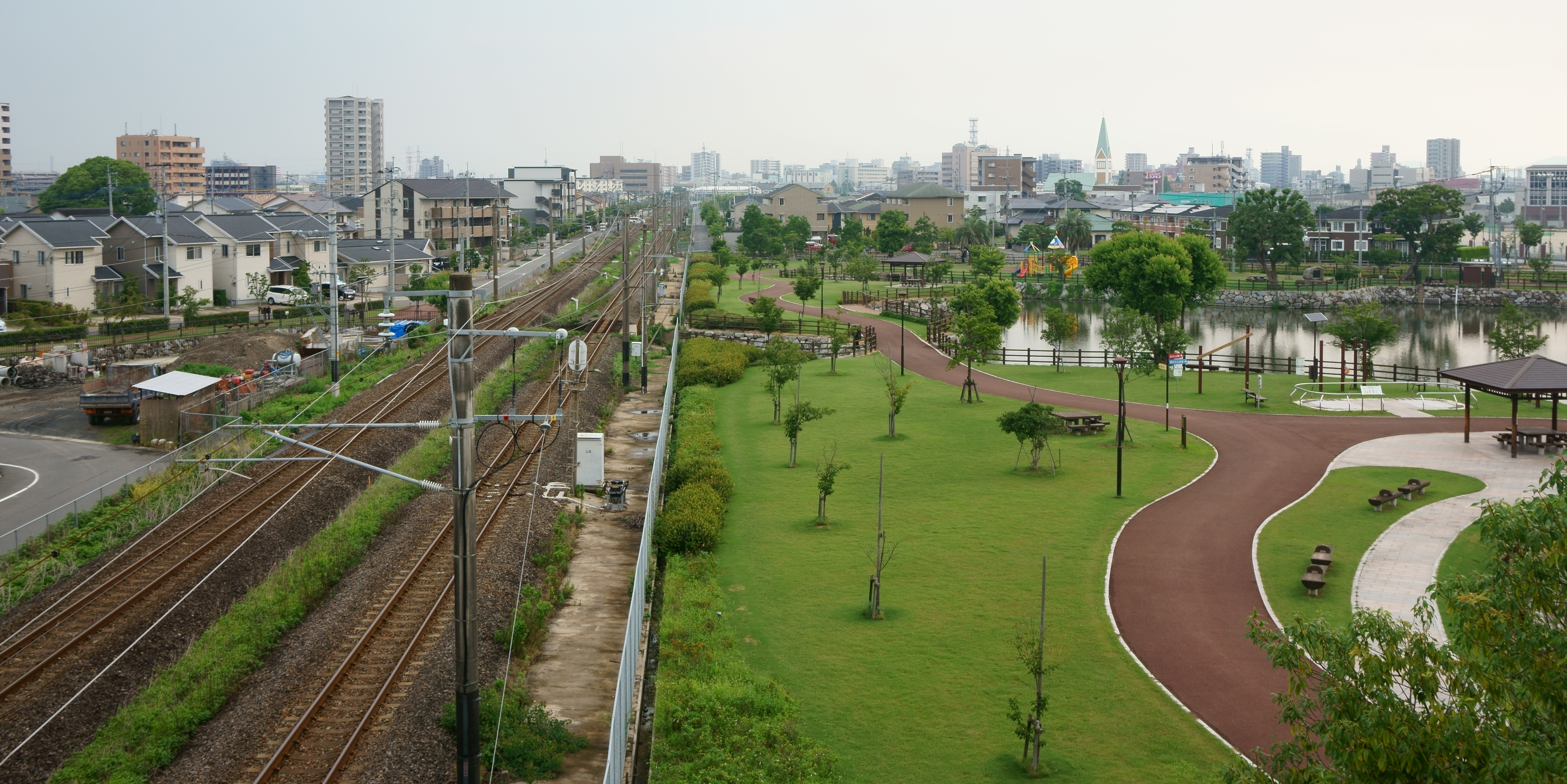 The cityscape of Hyogokita in Saga city, from Tombo bridge.